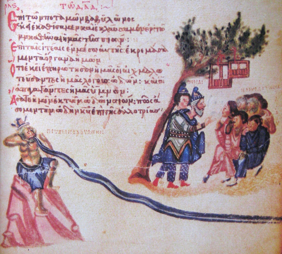 Psalm By the rivers of Babylon from Chludov Psalter, cropped version of File:Chludov rivers.jpg